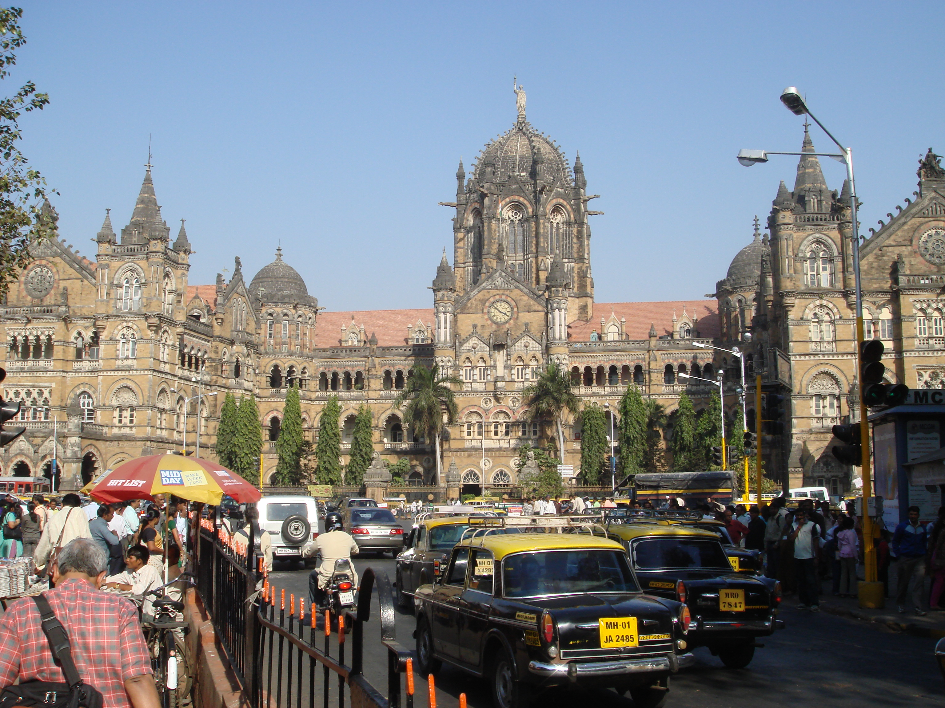 The Chhatrapati Shivaji Terminus in Mumbai (Maharashtra, India).